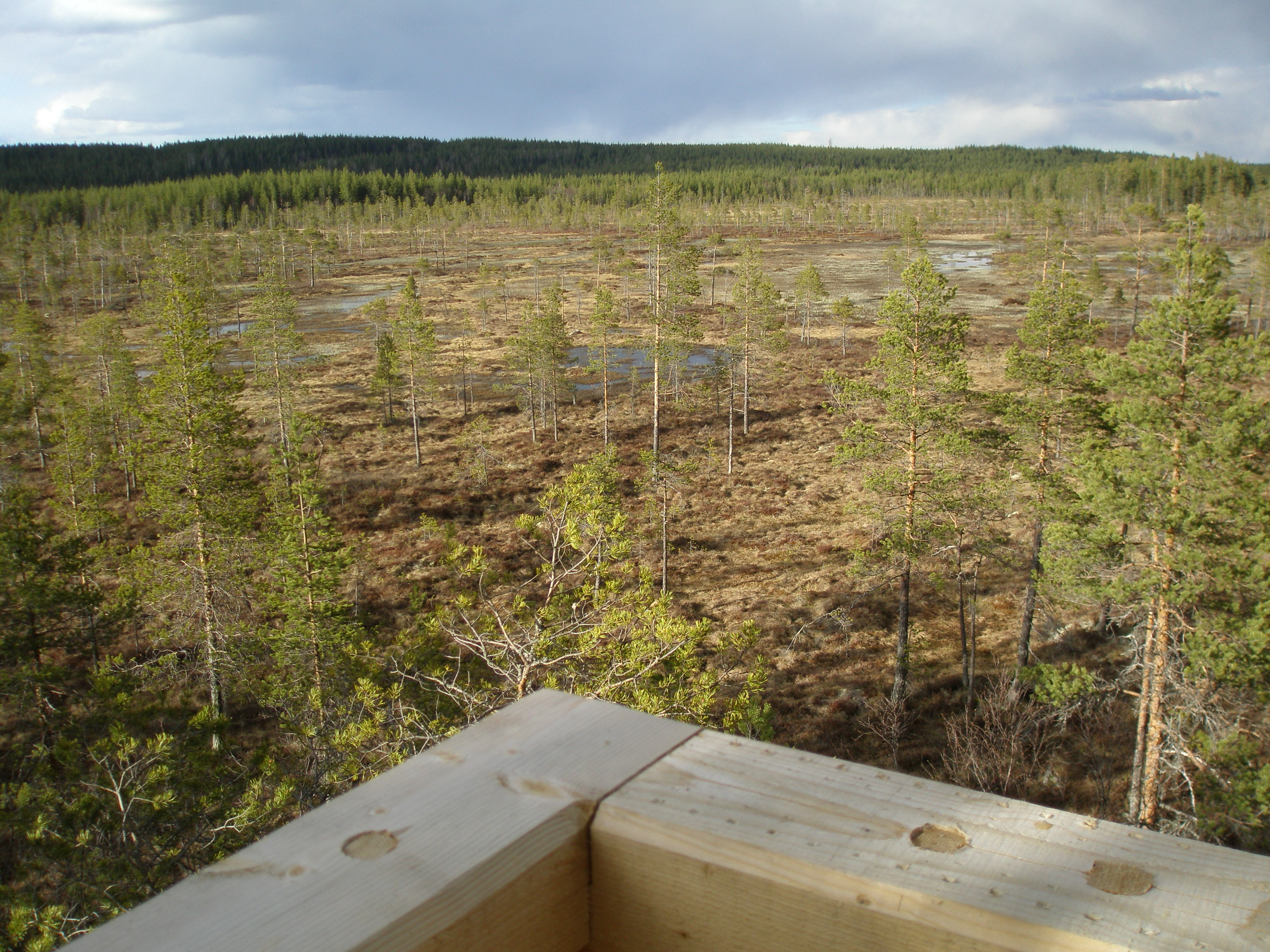 View over Svartåmyran wetlands from observation tower, close to myrentrén ("bog entrance") of Hamra nationalpark